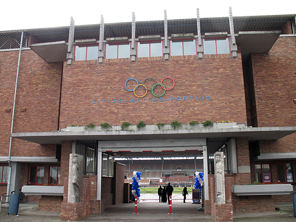 Main entrance with sculptures Altorf. Photo by Branko Collin.